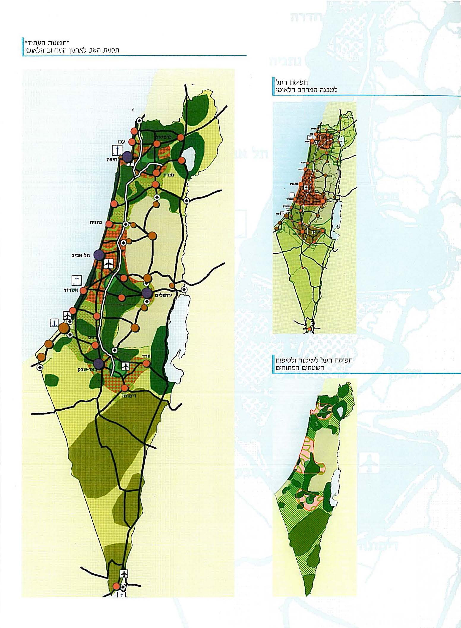 Israel 2020 - Spatial Strategy